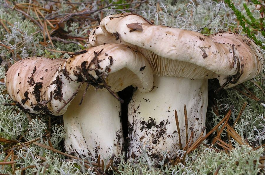 Fruit bodies of the fungus Tricholoma roseoacerbum. Photographed in Västerbotten, Sweden.